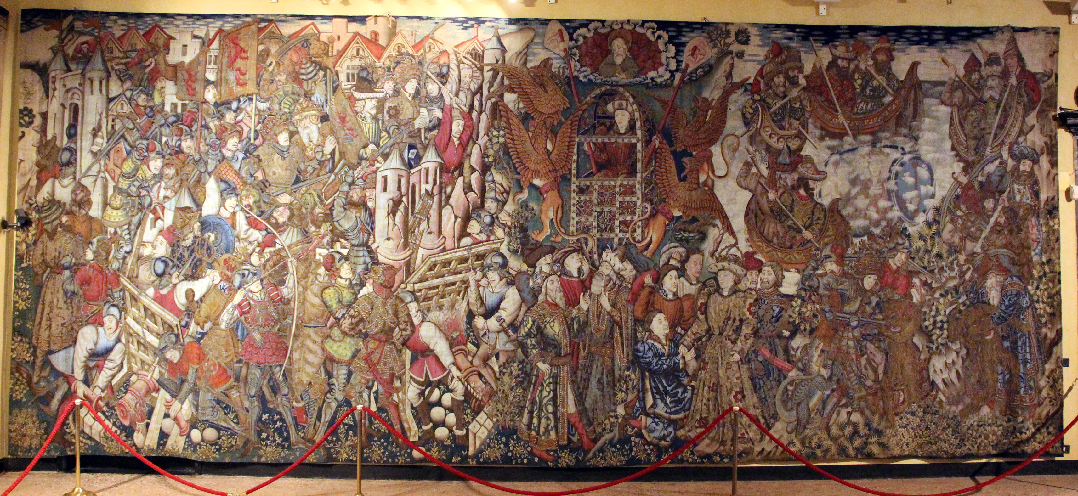 Maturity of Alexander the Great tapestry